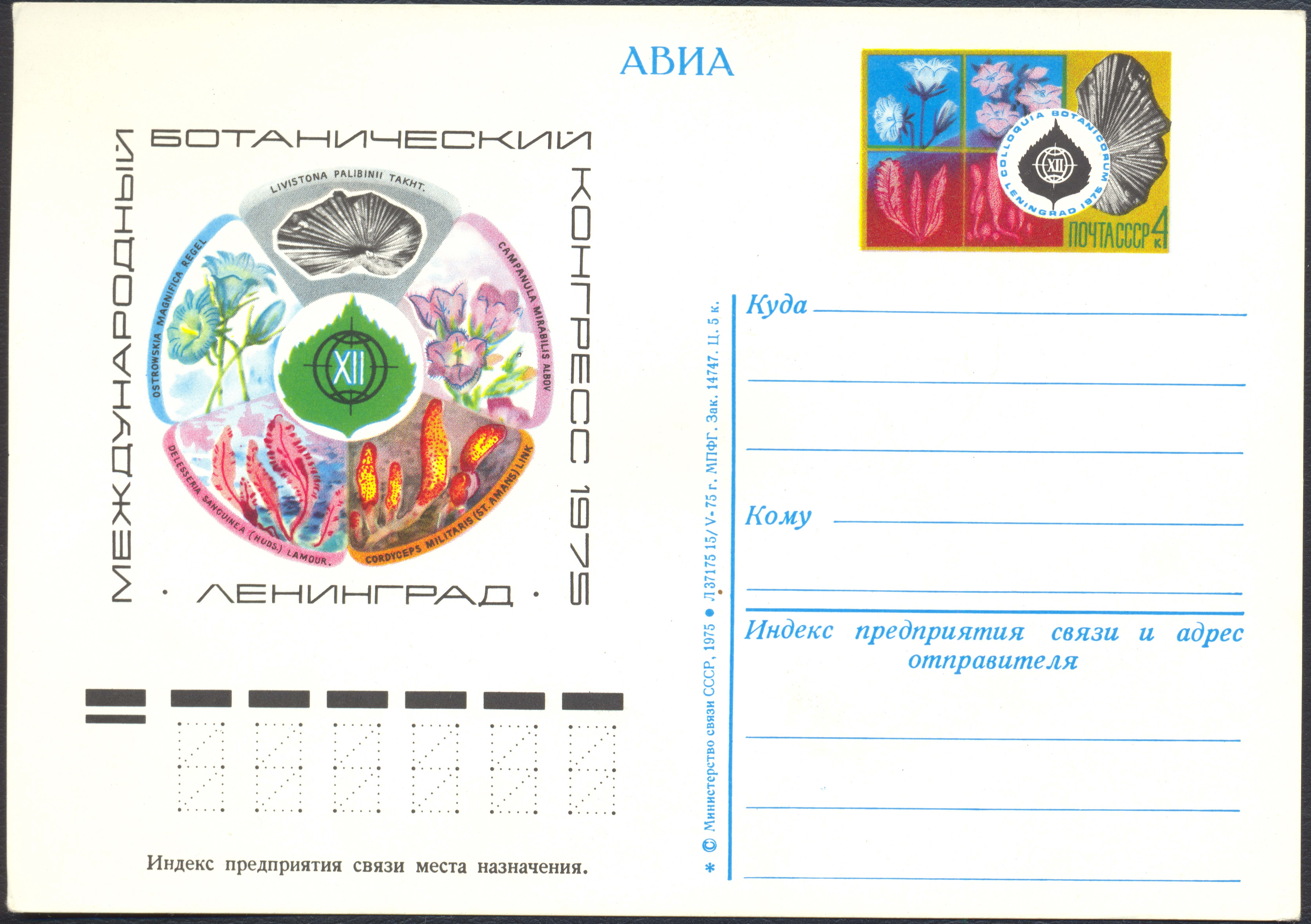 Stamped USSR post card dedicated to 12th International Botanical Congress - Colloquia Botanicorum (Leningrad, 1975) with a preprinted (original) stamp, 1975, 4 kop.